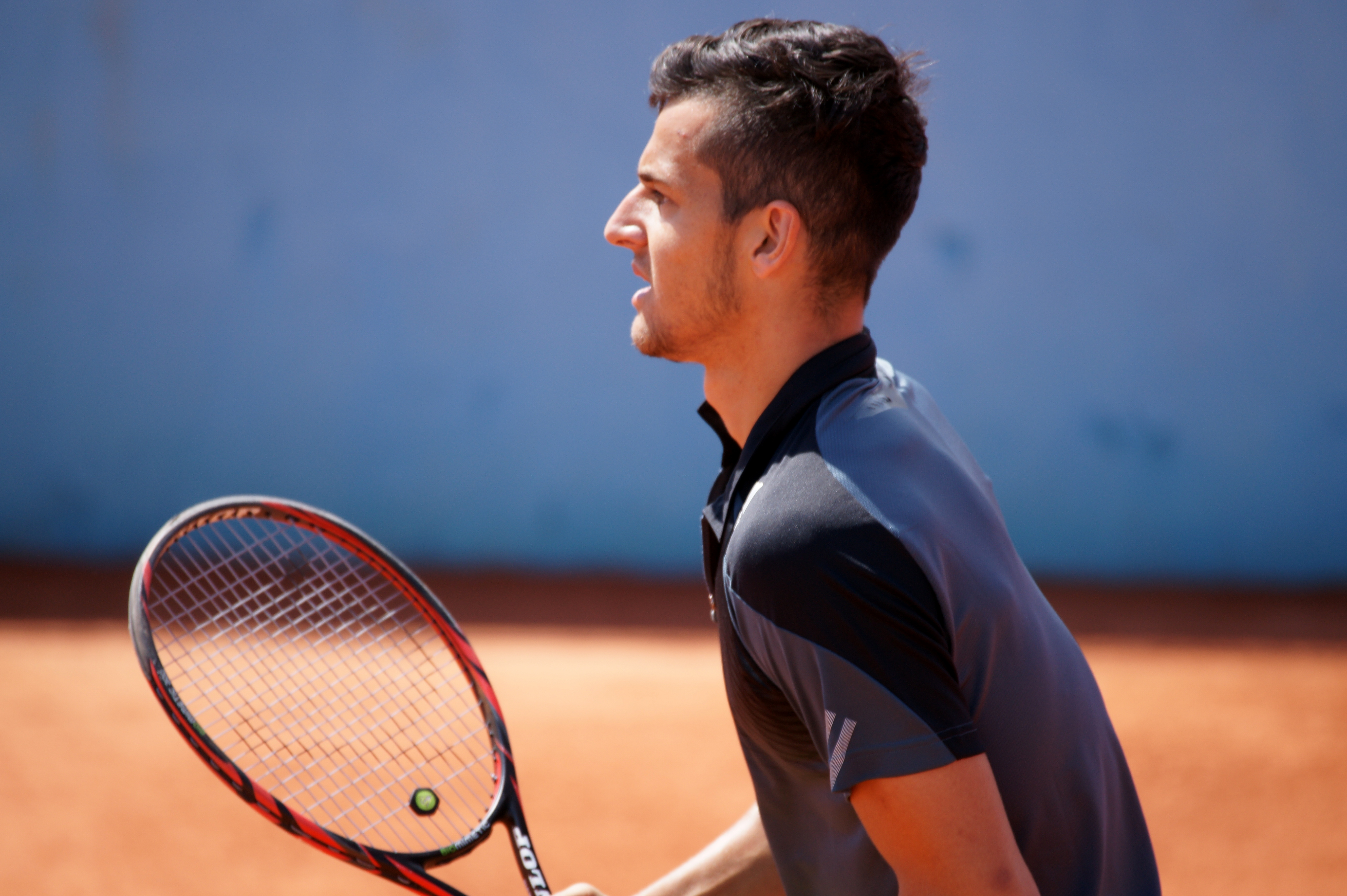 Mate Pavić Nice Open ATP 2015